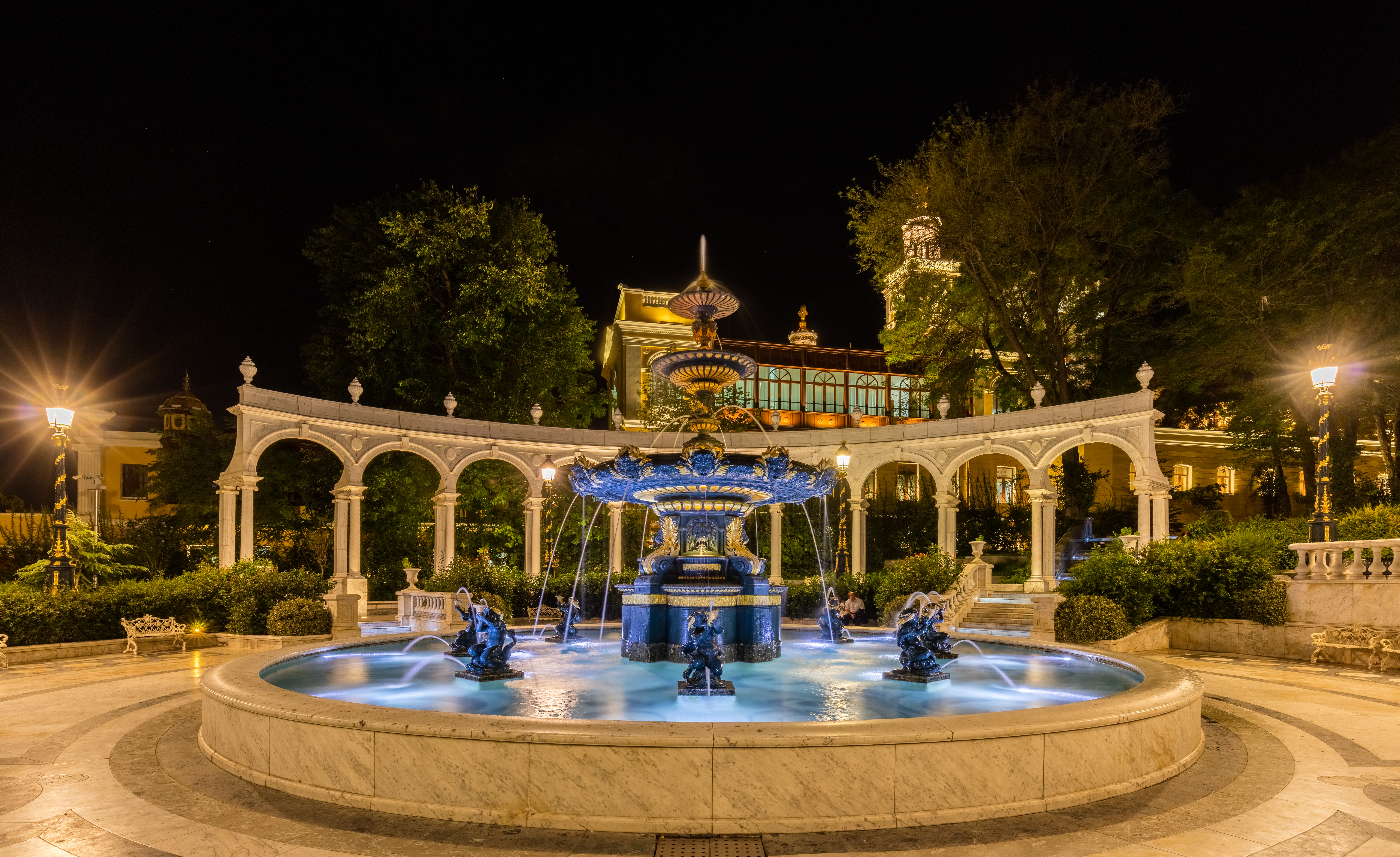 Fountain in the Old City of Baku, capital of Azerbaijan.